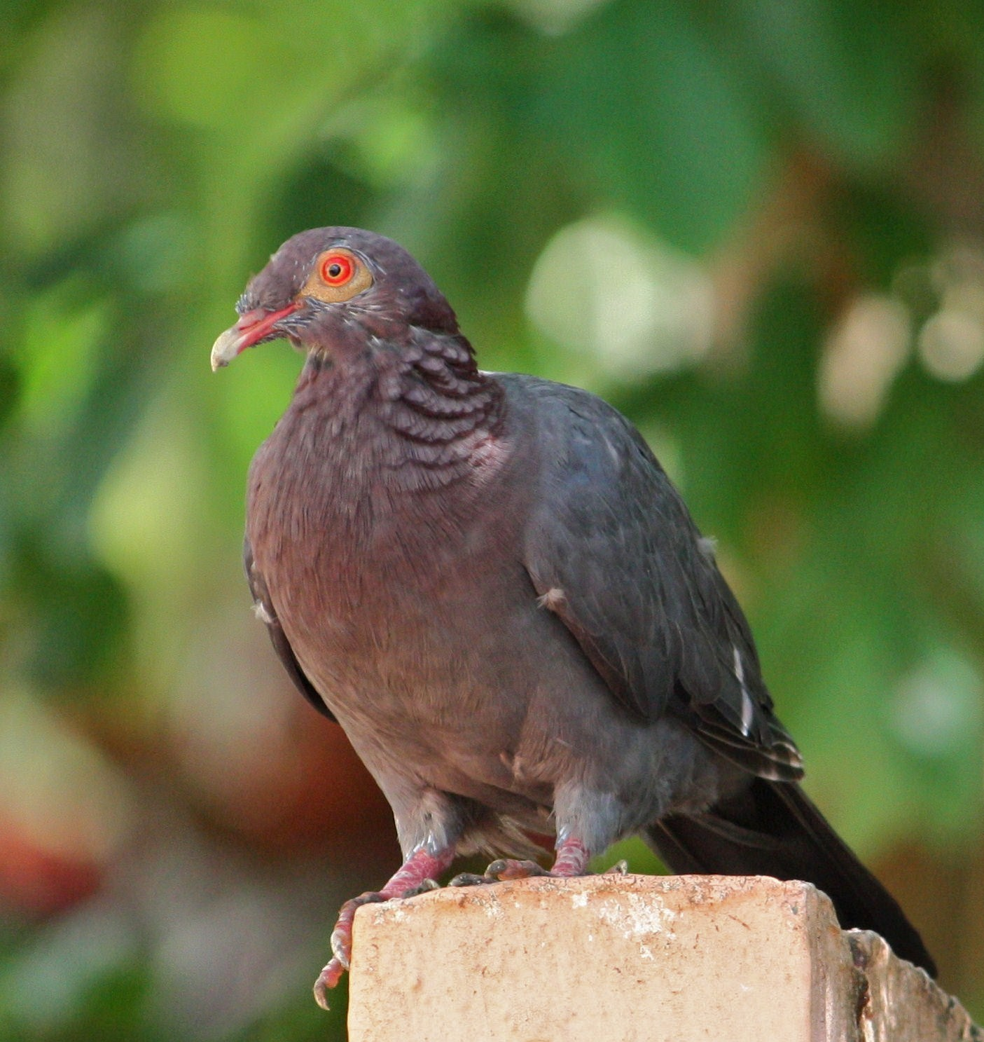 Scaly-naped Pigeon (Patagioenas squamosa). Rockley, Christ Church, Barbados.